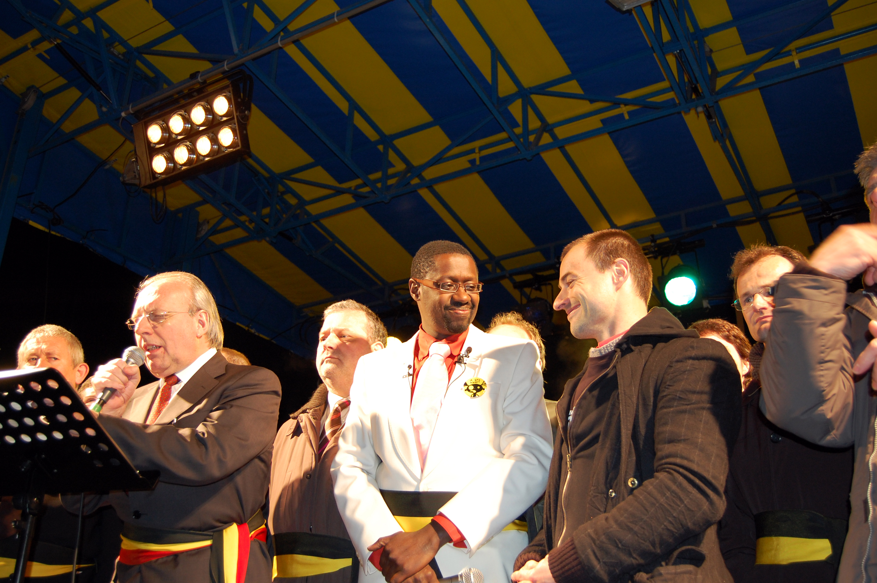 Picture of the multicultural mass wedding event in Sint-Niklaas.